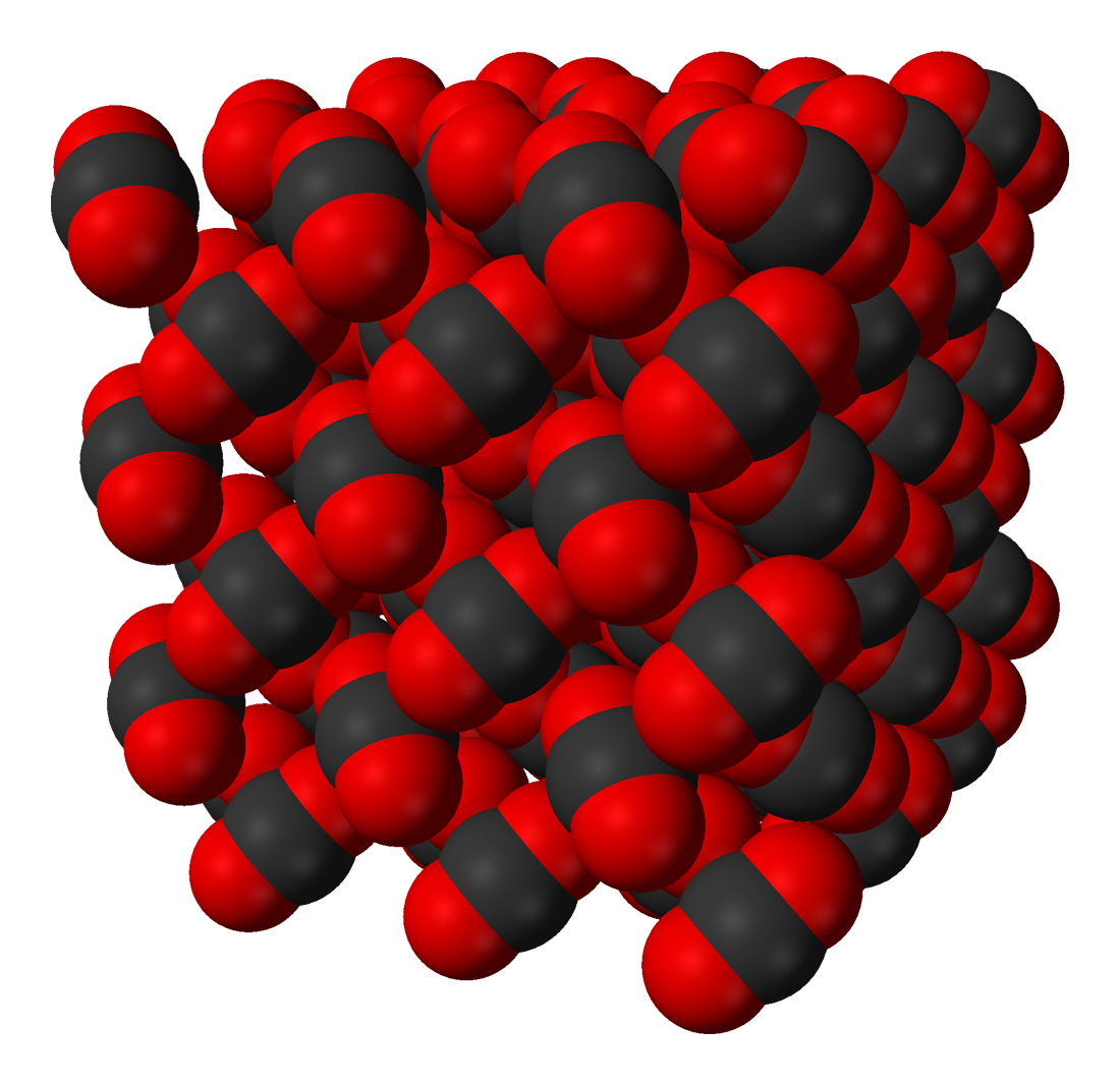 Space-filling model of the part of the crystal structure of solid carbon dioxide (dry ice), CO2. Crystal structure data from AMCSD.